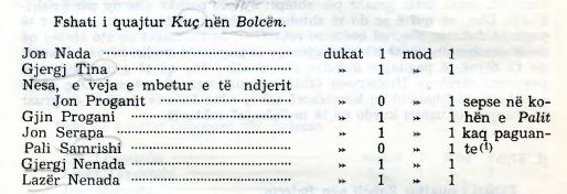 Village of Kuç, Shkodër, Albania in the 1416-7 Venetian cadaster of Scutari. This is the settlement from where Old Kuçi moved northwards to Kuči, Montenegro and formed the historical tribe with other groups based on kinship ties in the region